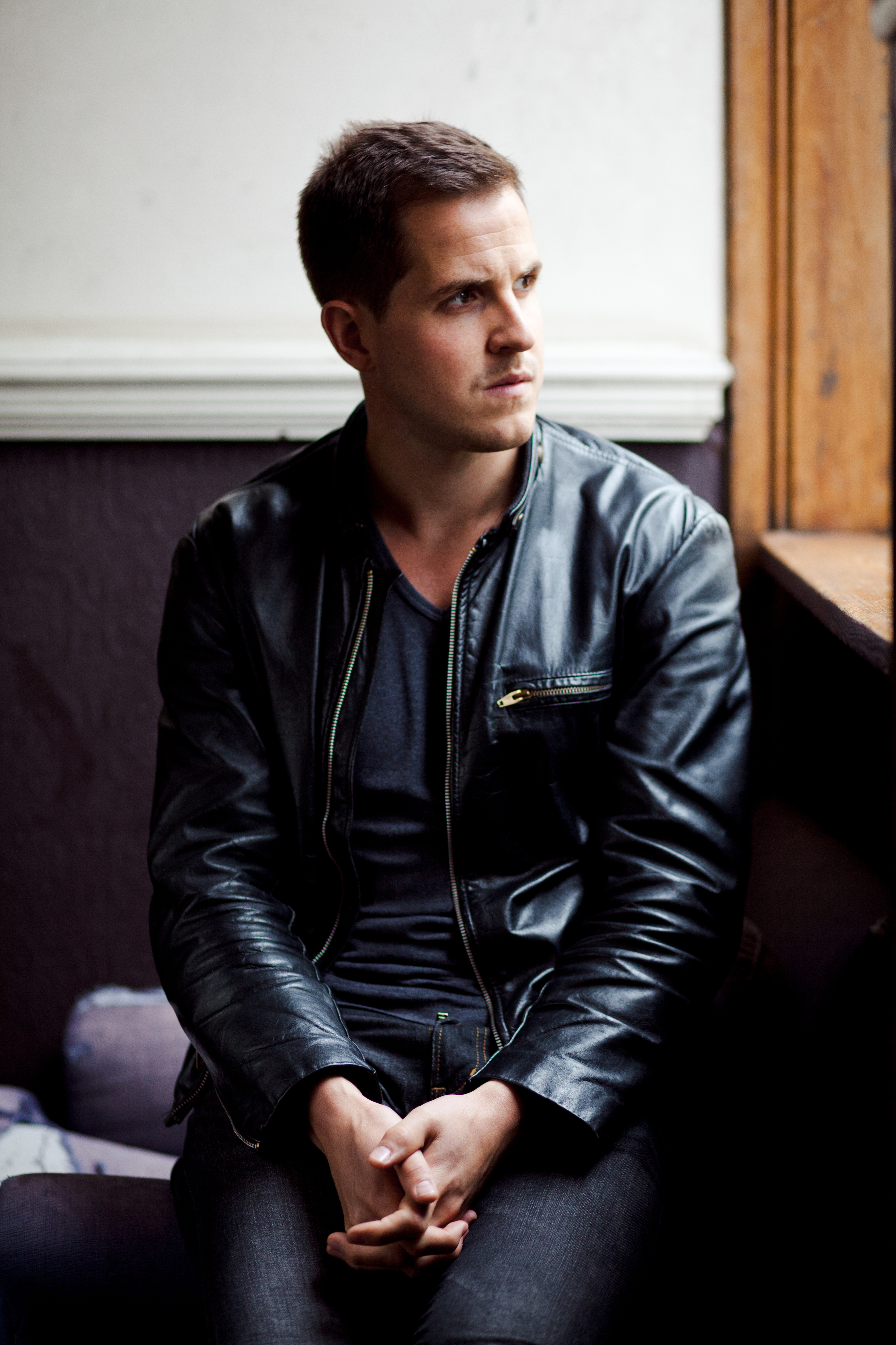 Dan Jones, British historian and journalist, author of 'The Plantagenets' and 'Summer of Blood', columnist for the Evening Standard